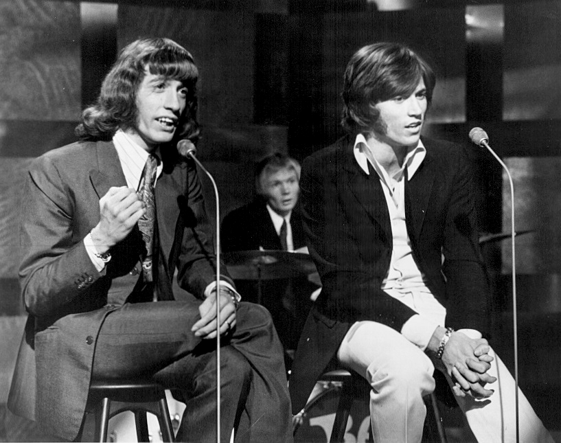 The Bee Gees performing on the televsion show This is Tom Jones, Season 1, Episode 3